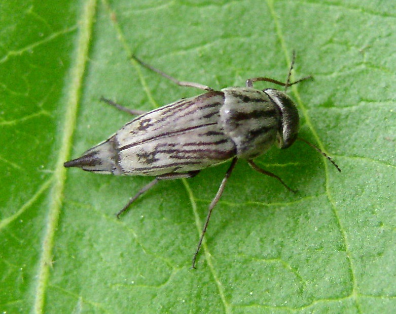 Tumbling flower beetle, Tomoxia lineella. Peace Valley Nature Center, Bucks County, Pennsylvania, USA.